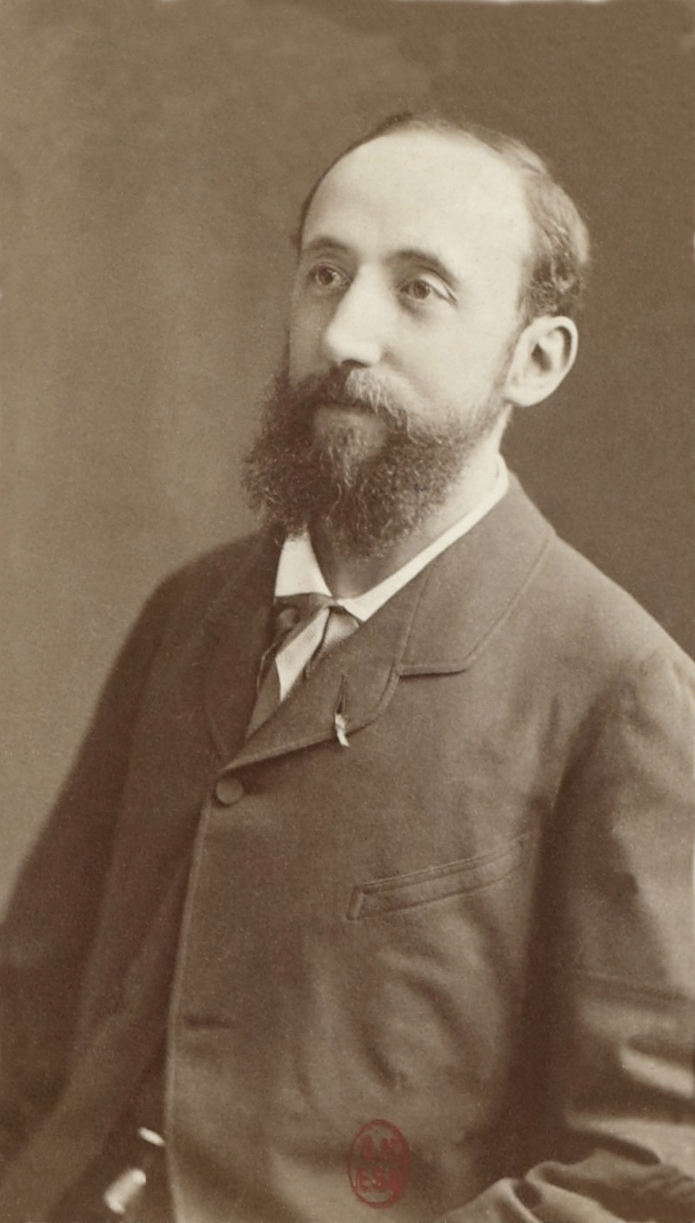 Jules Claretie (1840 - 1913), french playwright, novellist, journalist, academician, director of the Théâtre Français.